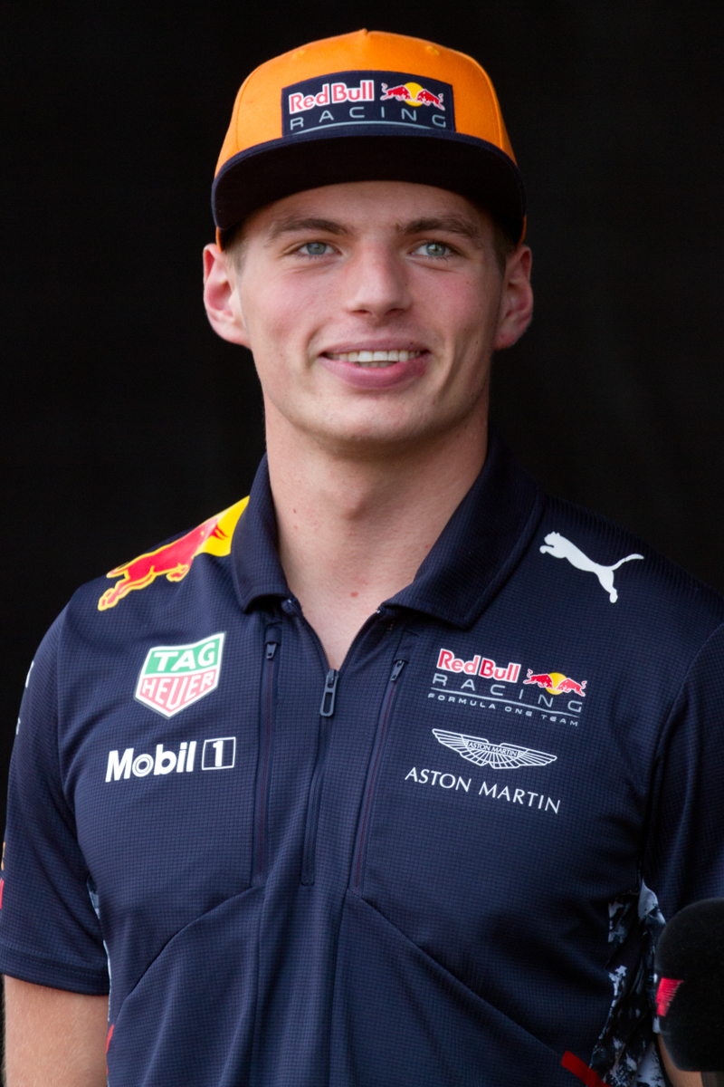 Formula One 2017 Rd.15 Malaysian GP: Max Verstappen (Red Bull) at the fan meeting